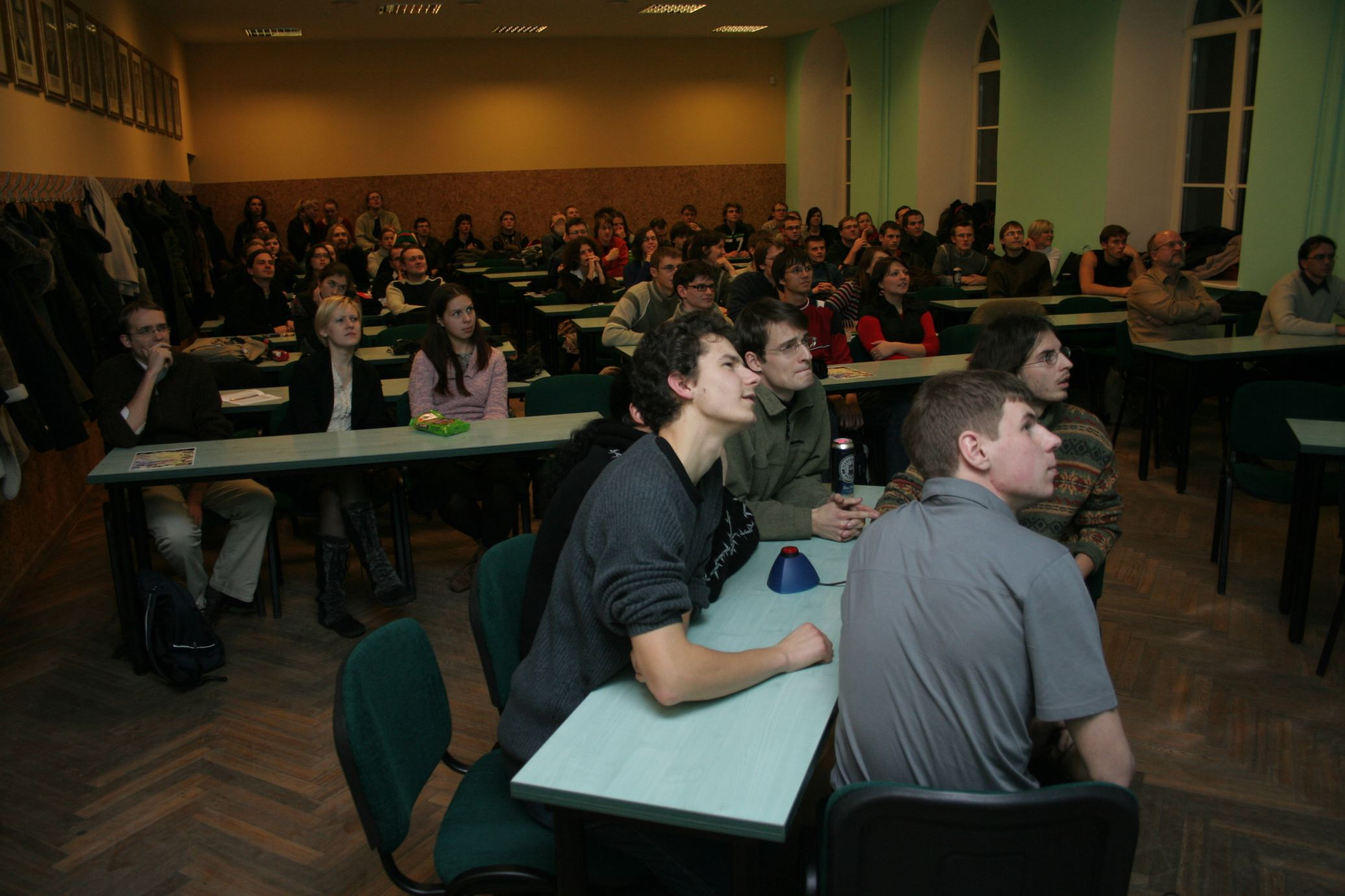 Protmušis semi final